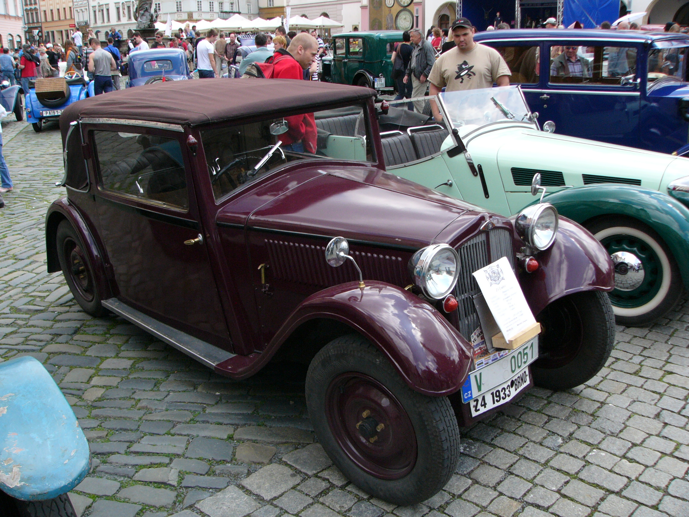 Zbrojovka Brno Z4 I. serie. This certain car was manufactured in 1933.